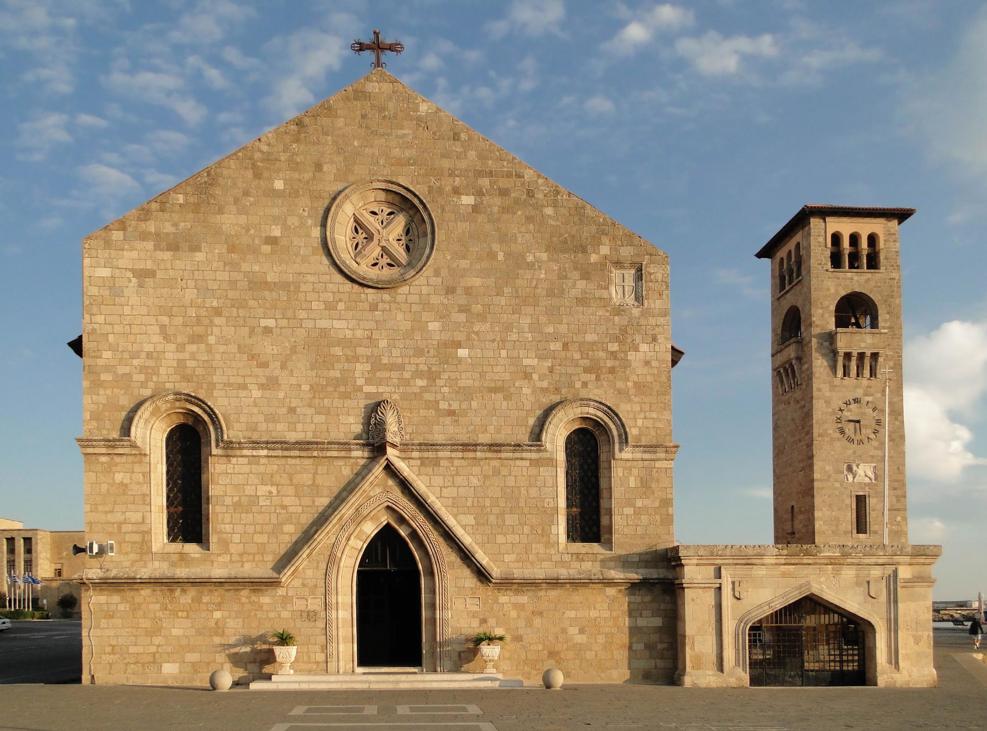 Church of the Evangelismos, Rhodes, Greece